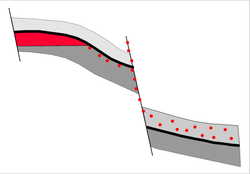 Oil migration from source rock